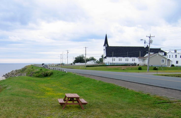 Pointe-Sapin church.